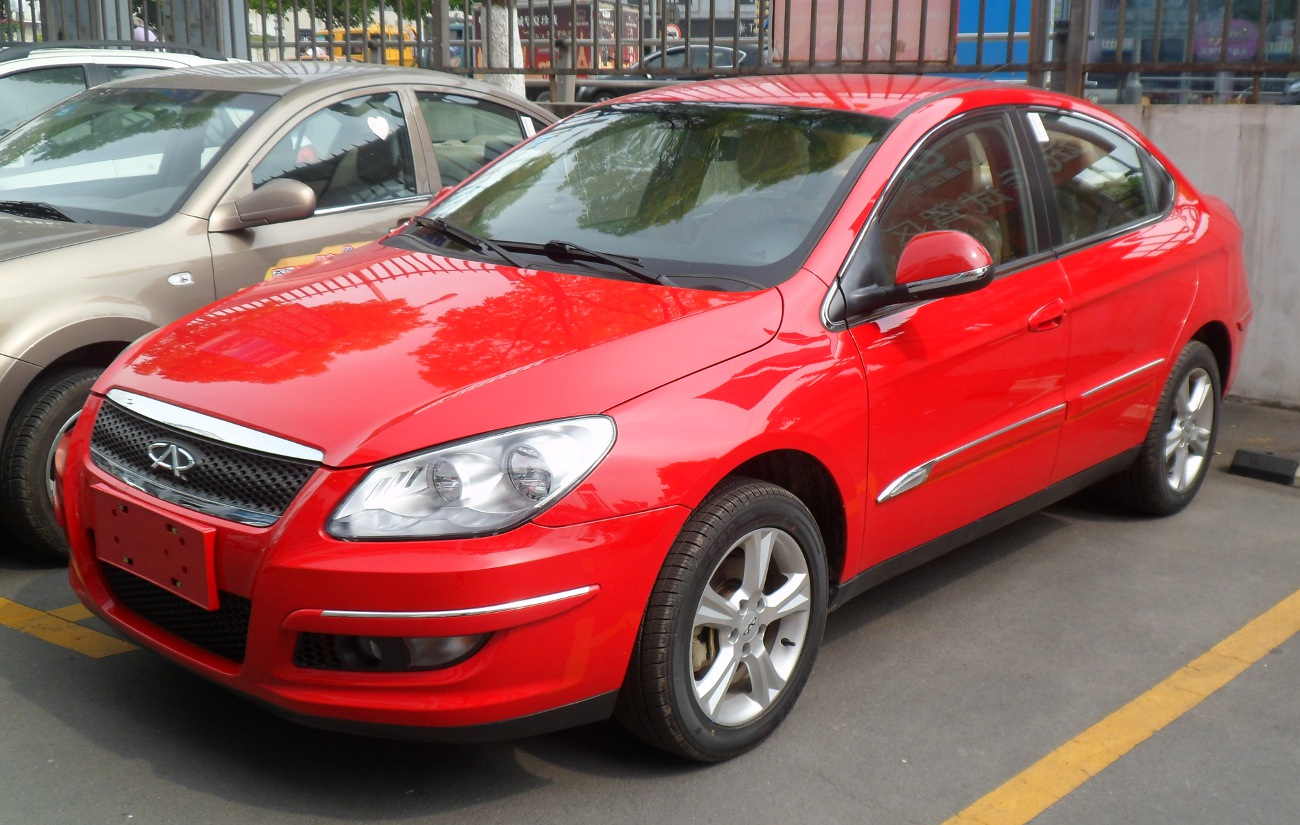 Chery A3 sedan photographed in Shanghai, China.